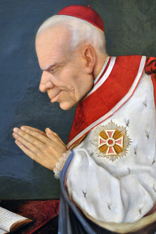 Péter Klobusiczky (1754-1843) Bishop of Satu Mare 1807-1821, Archbishop of Kalocsa 1821-1843